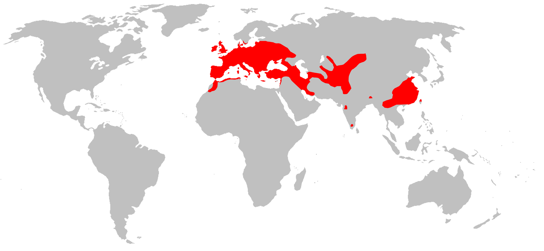 Distribution range map of Pipistrellus pipistrellus.